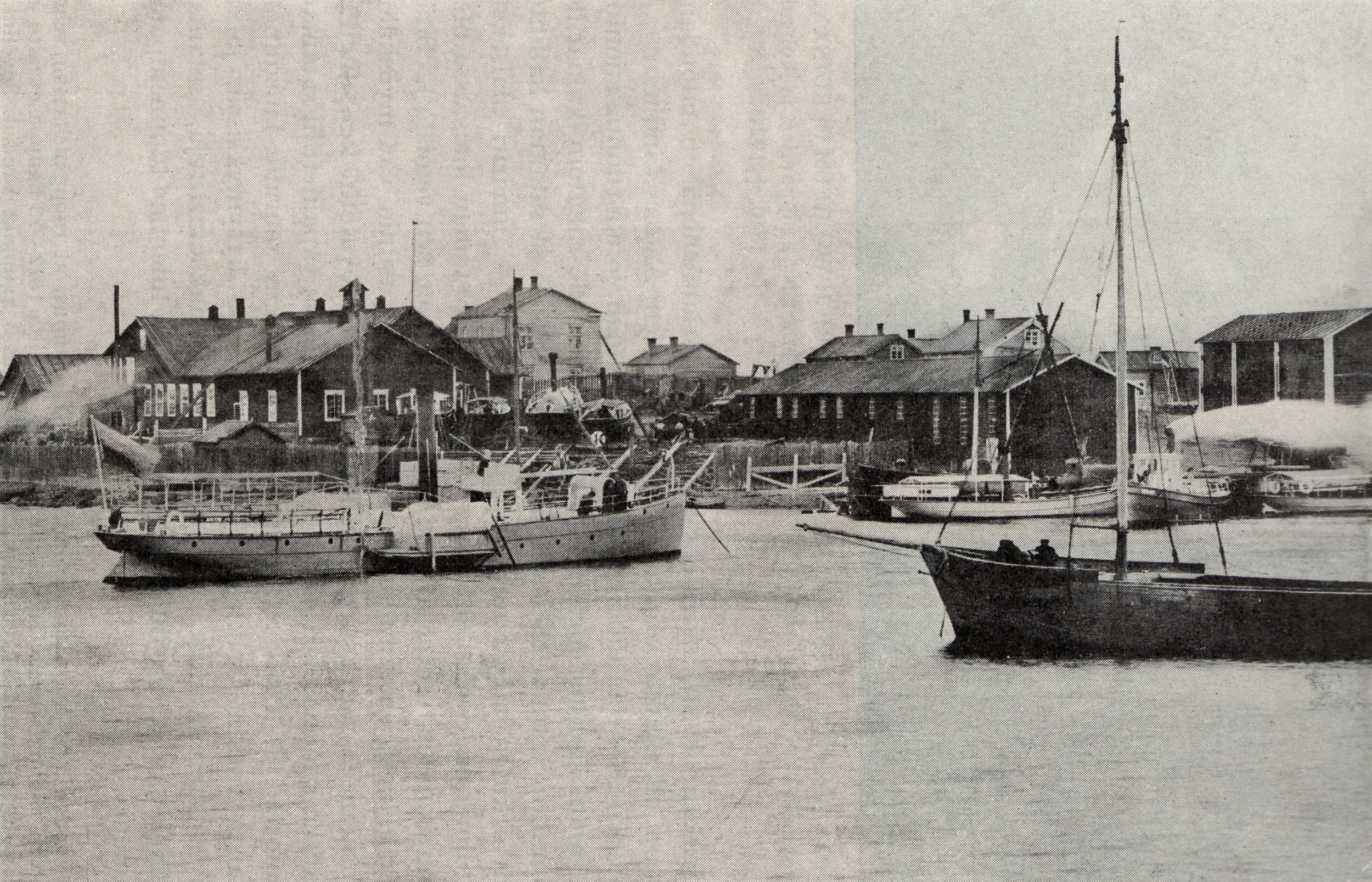 Pikisaari in 1880s. According to Snellman the ship on the left is paddle steamer Vellamo.